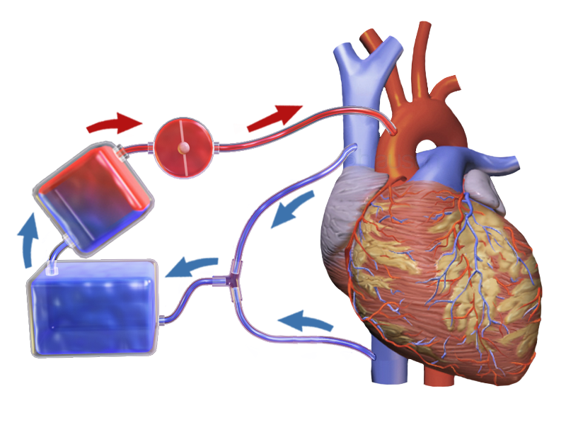 Heart-Lung Machine. See a full animation of this medical topic.